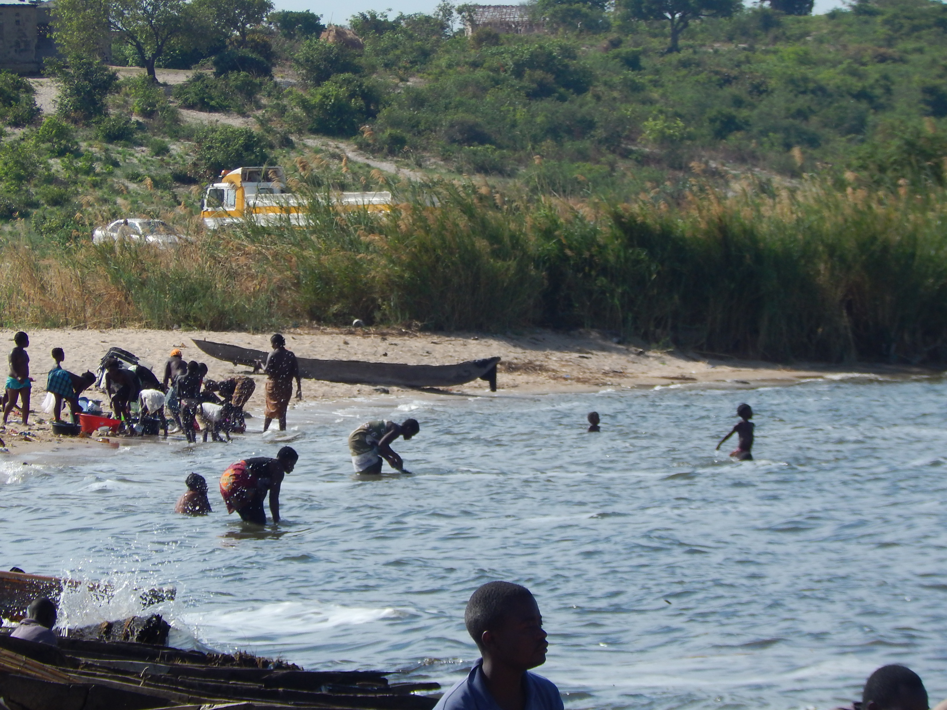 Kids swimming while ladies wash laundry in Lake Bangweulu This is an image of "African people at work" from Zambia